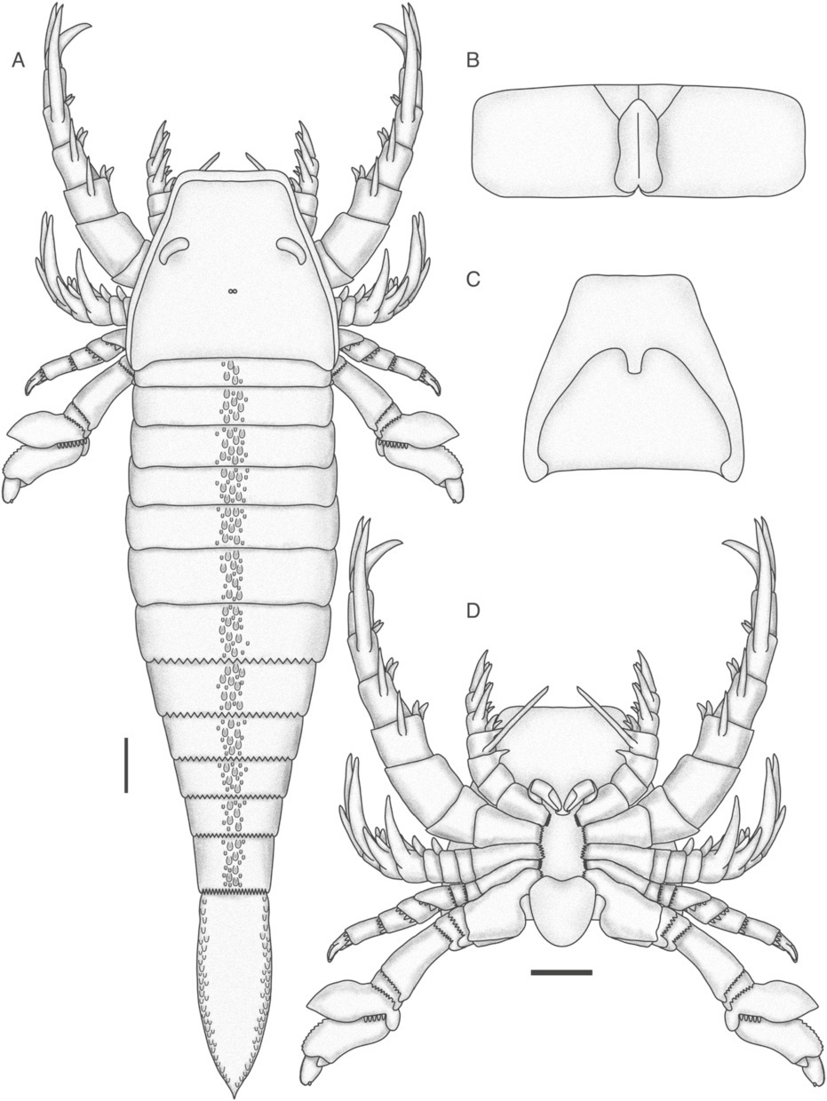 Pentecopterus decorahensis, reconstruction of adult. a Dorsal view. b Genital operculum. c Ventral view of carapace and prosomal ventral plate. d Ventral view of prosoma. The appendages are shown rotated in lateral view; in life, appendages IV–VI would be oriented so that the anterior edge (in IV) or the posterior edge (in V and VI) of the limb as in the reconstruction would face ventrally. The form of the median and lateral eyes and metastoma are hypothetical and based on ancestral state reconstructions using the phylogenetic matrix and topology. Scale bars = 10 cm (maximum size)